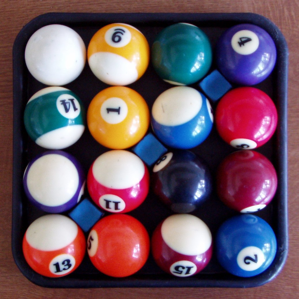 Pool billiard balls with three chalk cubes.